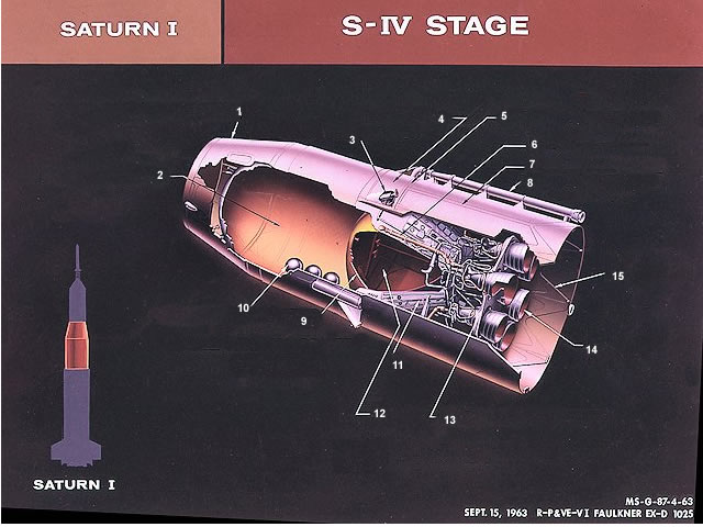 S-IV Saturn I rocket second stage Downloaded from the NASA Marshall Spaceflight Center Image (MIX) Exchange Serve: 1. Forward interstage 2. Hydrogen tank insulator 3. Ullage rockets 4. Aft skirt 5. Separation plane 6. Hydrogen feed line 7. Aft interstage 8. Hydrogen chill down duct 9. Common bulkhead 10. Cold helium spheres 11. Trust structure 12. LOX tank slosh baffles 13. Base heat shield 14. RL-10A-3 engine (6) 15. Blowout panels (8)